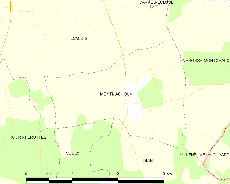 Map of French municipality Montmachoux